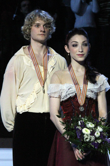 2010 World Figure Skating Championships - Meryl Davis and Charlie White